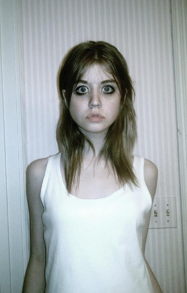 self portrait of Allison Harvard AKA Creepy-chan 2005